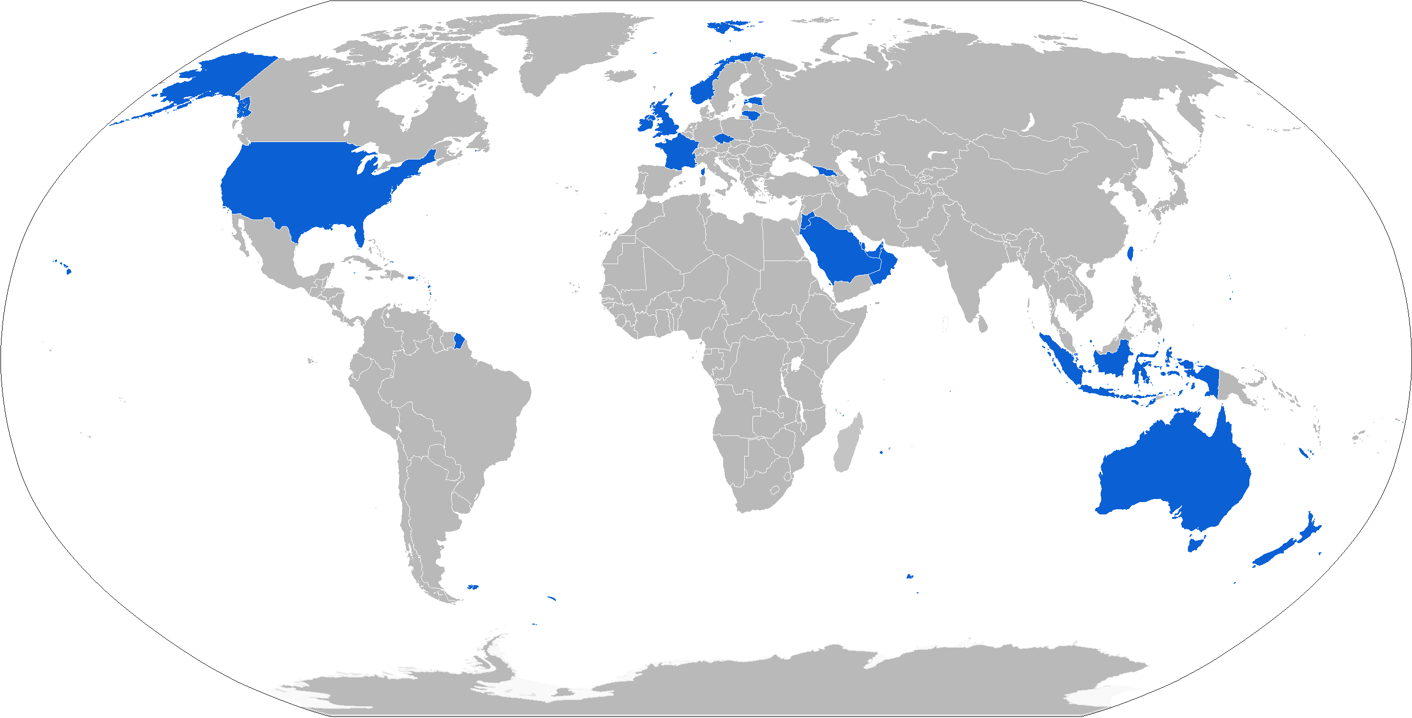 Map with FGM-148 operators in blue